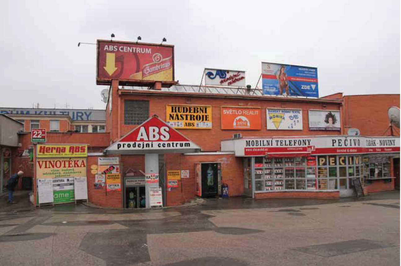 Vývěsní štíty, reklamní panely jako podpora prodeje, orientační značení, polepy oken. Nosiče narušují tektonické řešení fasády a napadají jeho architektonickou hodnotu. Zlín, 2013